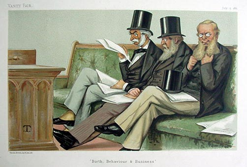 Caricature : Her Majesty's Opposition. "Birth, Behaviour and Business". Sir Stafford Northcote, Lord John Manners and Sir Richard Cross. 'Yet on the front bench there are men of mark. They are not however men of energy, and they disclose a marked want of appreciation of the new order of things, and a pronounced disinclination to adopt new methods of dealing with it'.